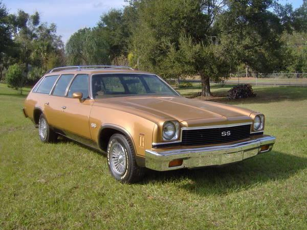 1973 Chevrolet Chevelle SS Wagon